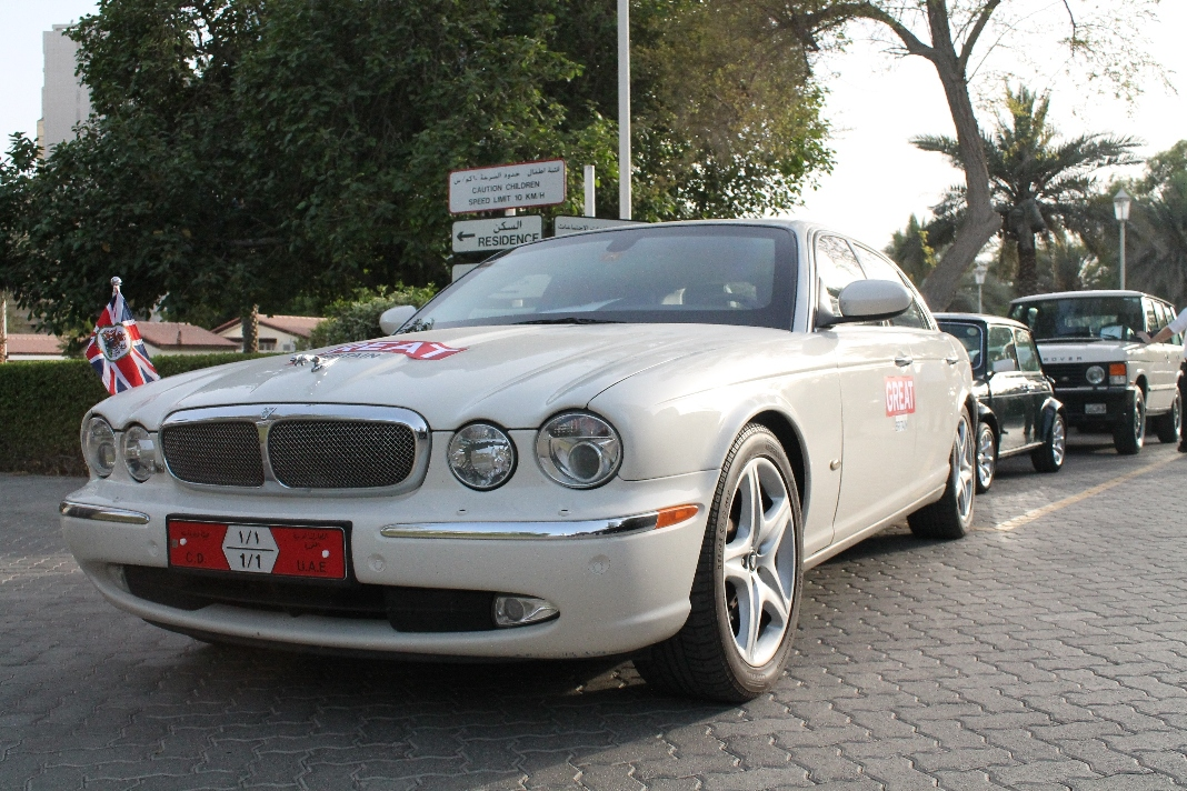 Christened the ‘Great British Car Rally’, the celebratory motorcade - the first of its kind in the UAE - was organised to celebrate the Diamond Jubilee of Her Majesty The Queen Elizabeth II and the strong, historic friendship between the UK and UAE. The rally was organised by the British Embassy and Yas Marina Circuit. Key sponsors of the event included Al Tayer Motors, Premier Motors, Abu Dhabi Motors, Al Habtoor Motors, and the International Automobile and Touring Club.